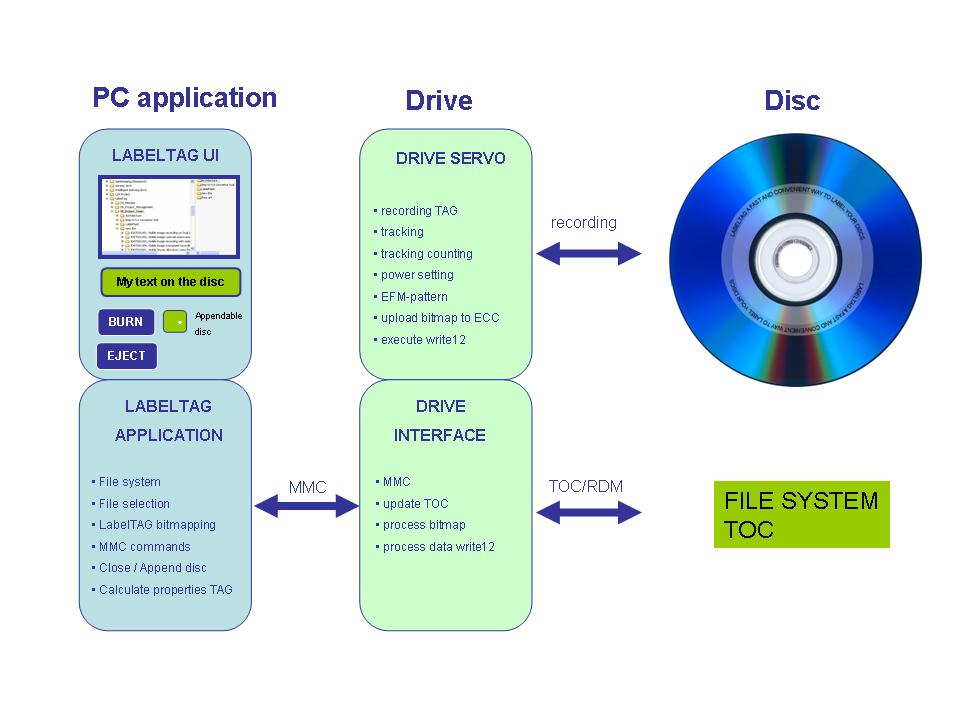 System overview of LabelTag feature